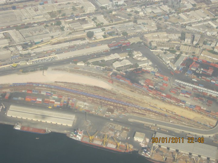 Port Of Karachi, Cercullar Railway